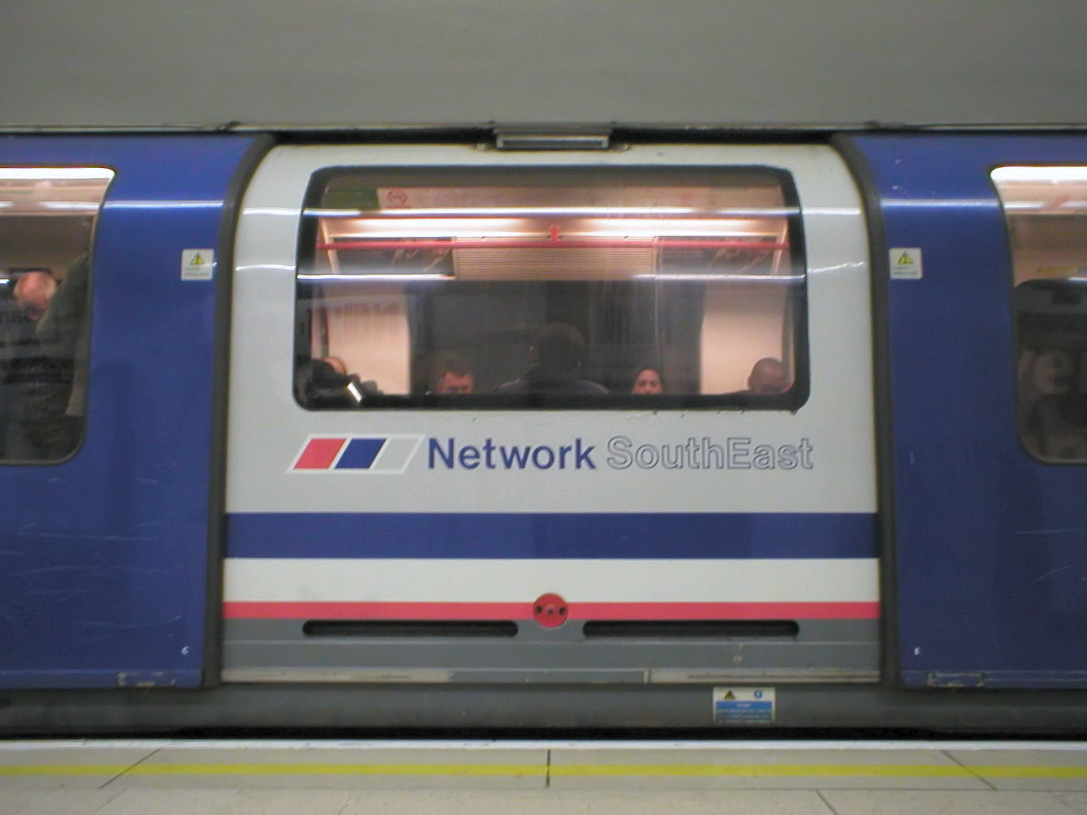 Side of a London Underground 1992 Stock train on the Waterloo & City Line, shortly before the six-month closure of the line in April 2006. After ownership of the line passed from British Rail to the London Underground in 1994, some trains had a LU logo placed over the Network SouthEast logo - but others, as seen here, still had their original NSE logos until the trains were repainted and refurbished during the 2006 closure.